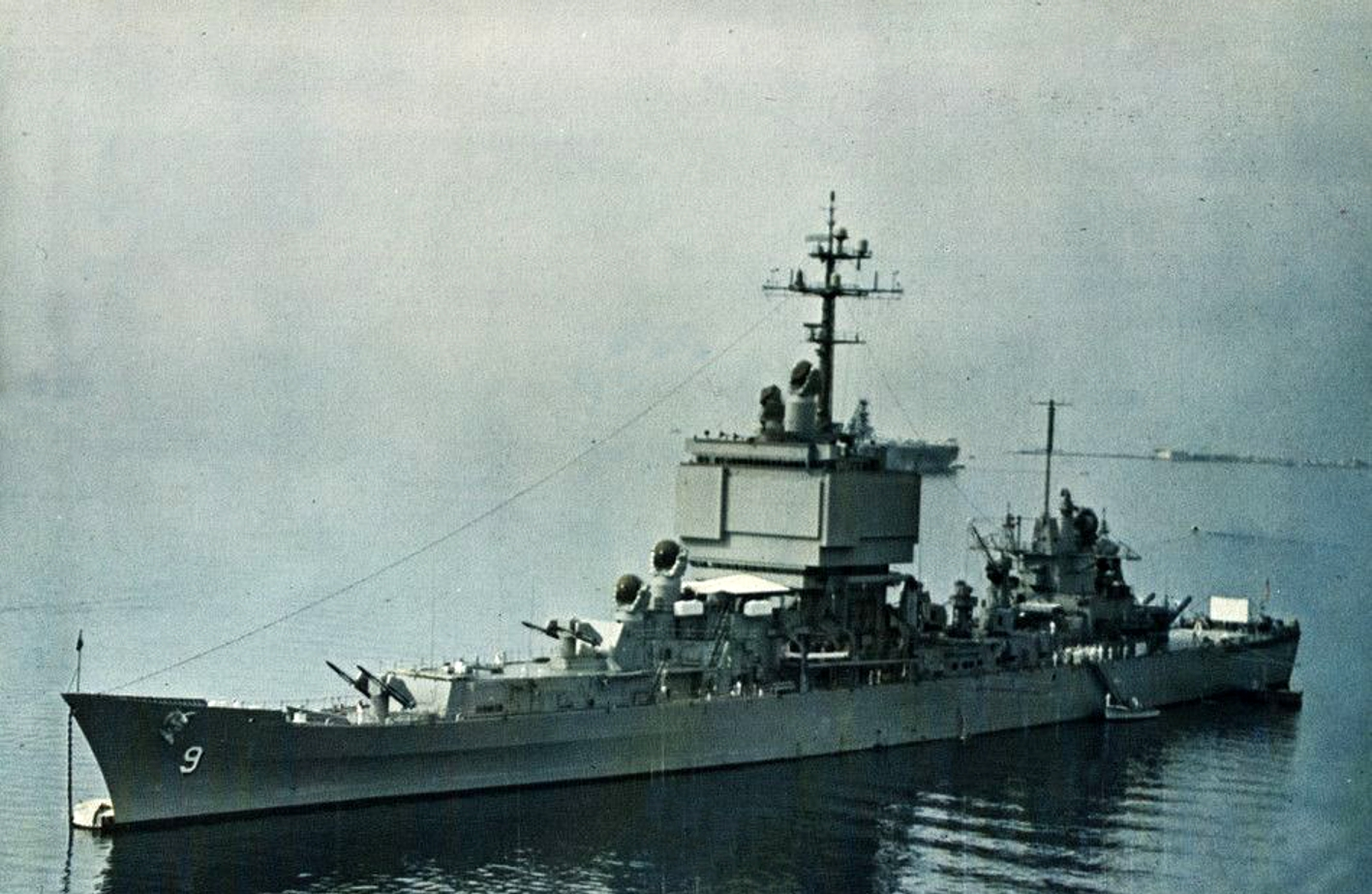 The U.S. Navy guided missile cruiser USS Long Beach (CGN-9) at anchor, circa in 1962.